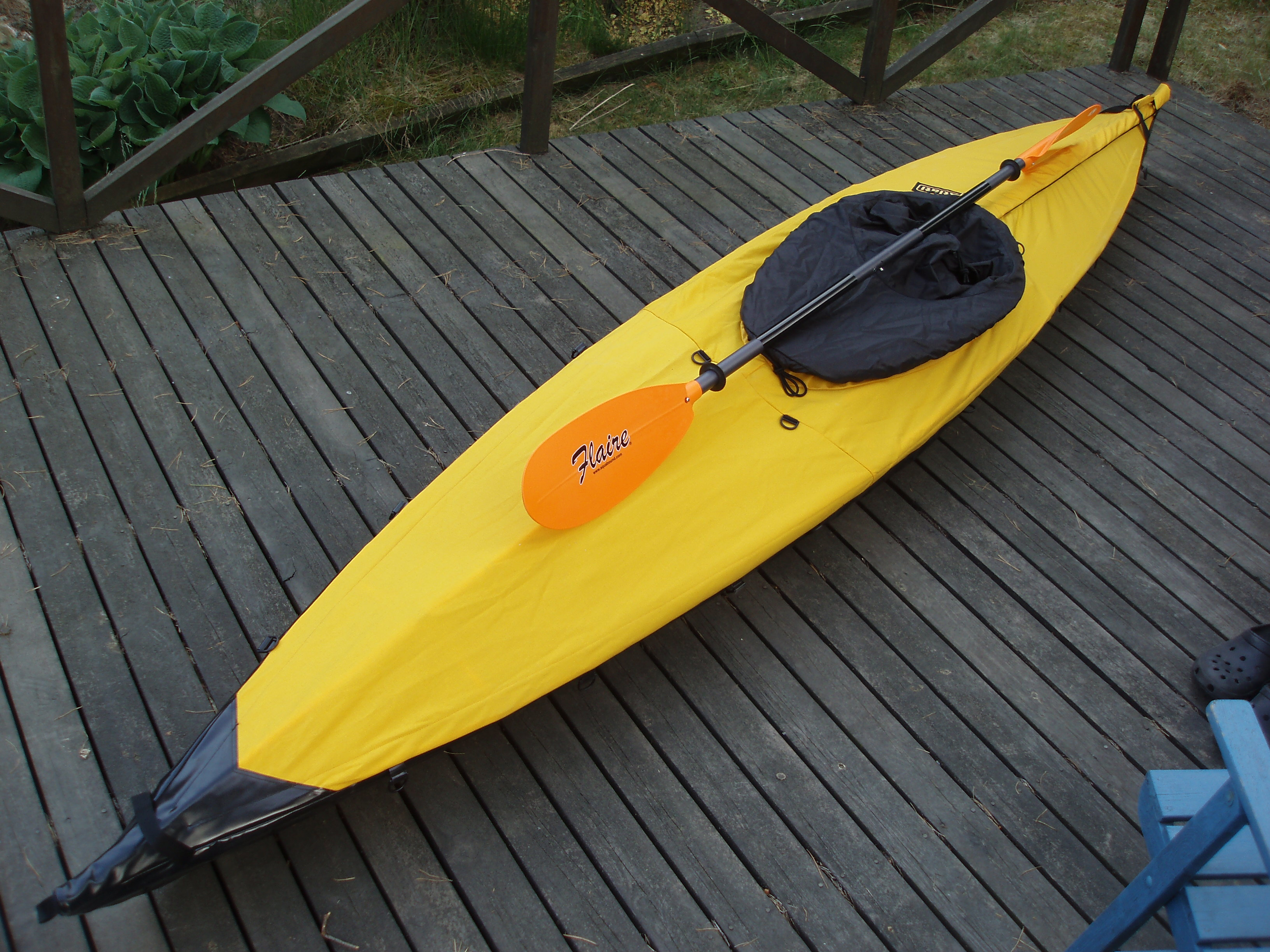 Folding kayak